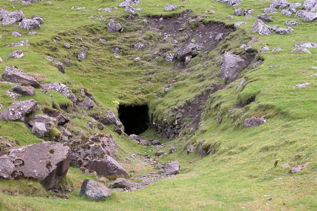 Old coalmine in Rangabotni north of Trongisvágur.